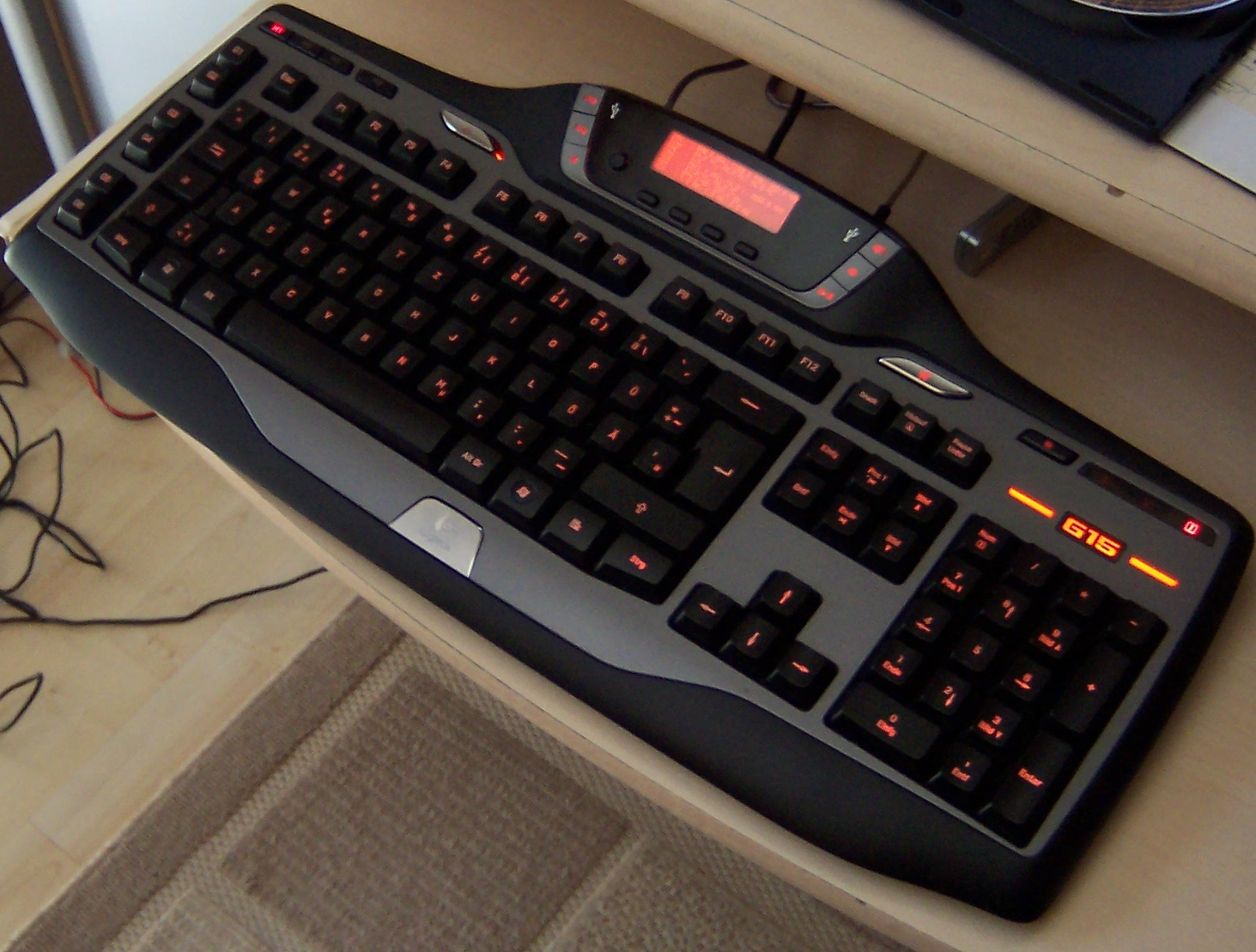 The Logitech G 15 version 2